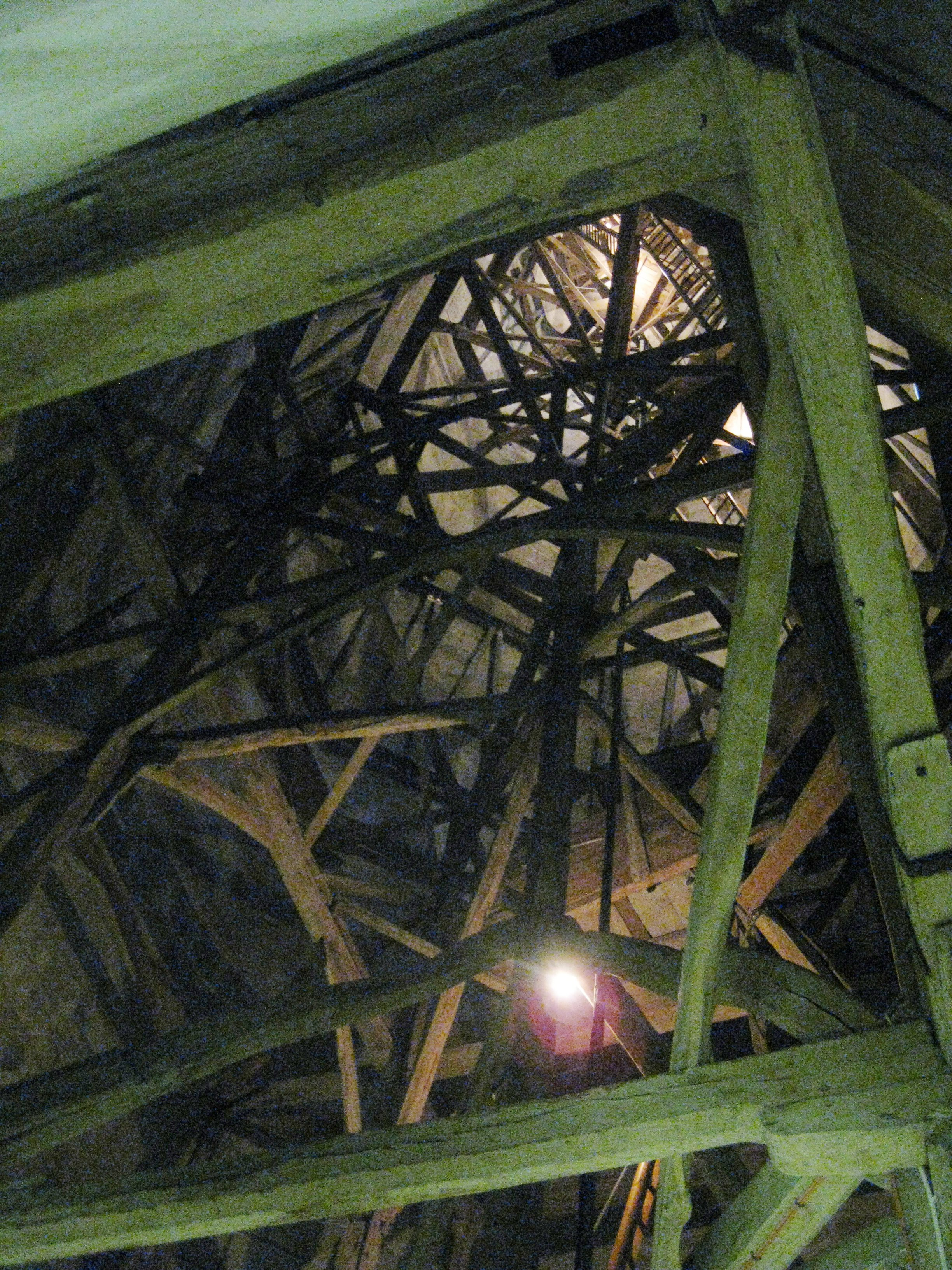 Timber frame of the spire of Salisbury Cathedral, Wiltshire